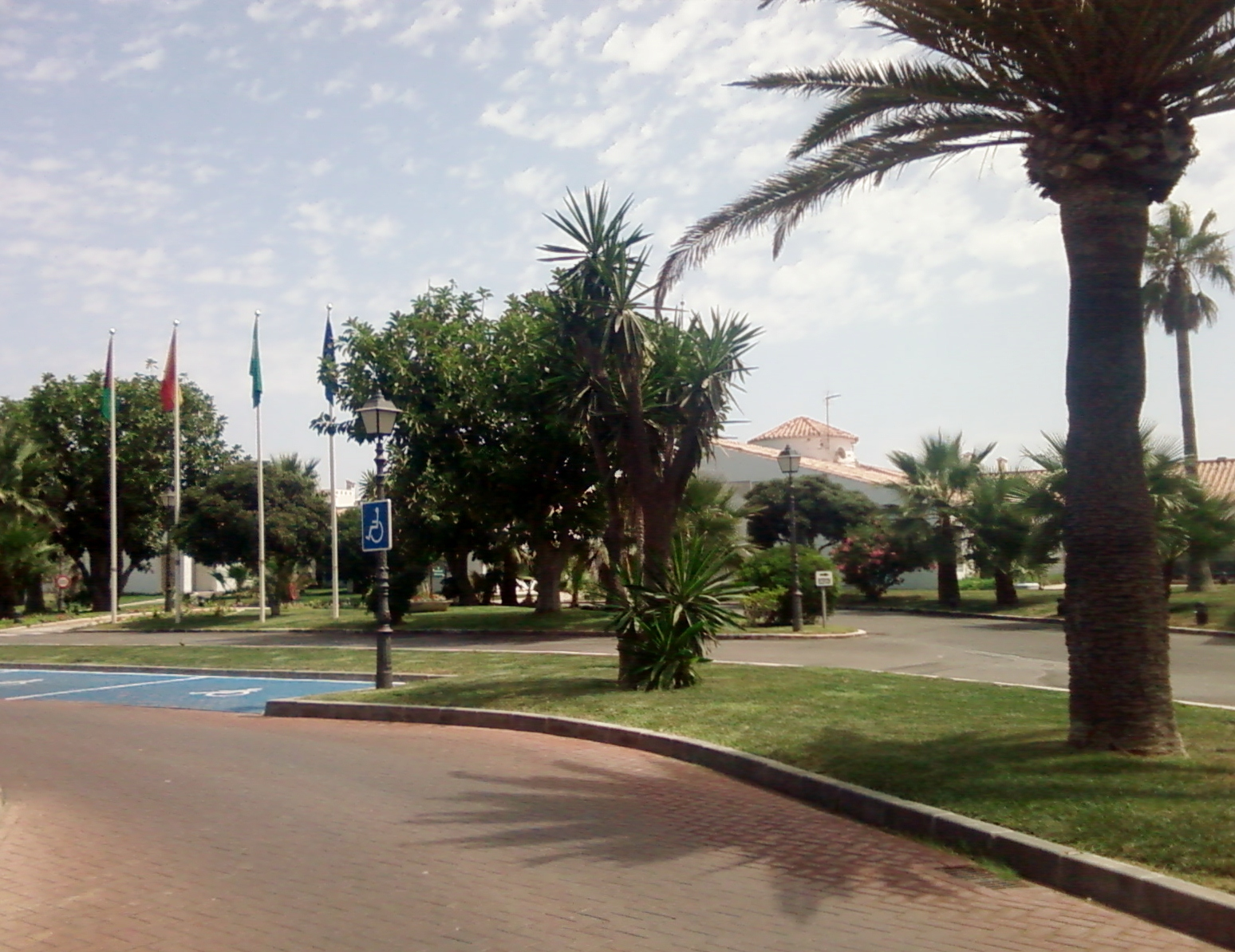 Parador Málaga Golf, Spain